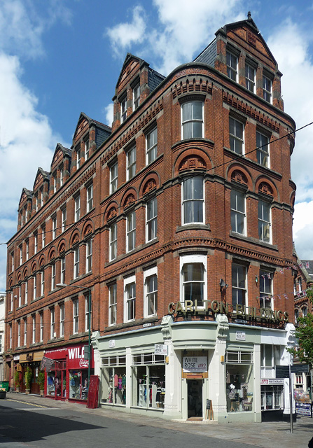 Carlton Buildings, Broad Street, Nottingham